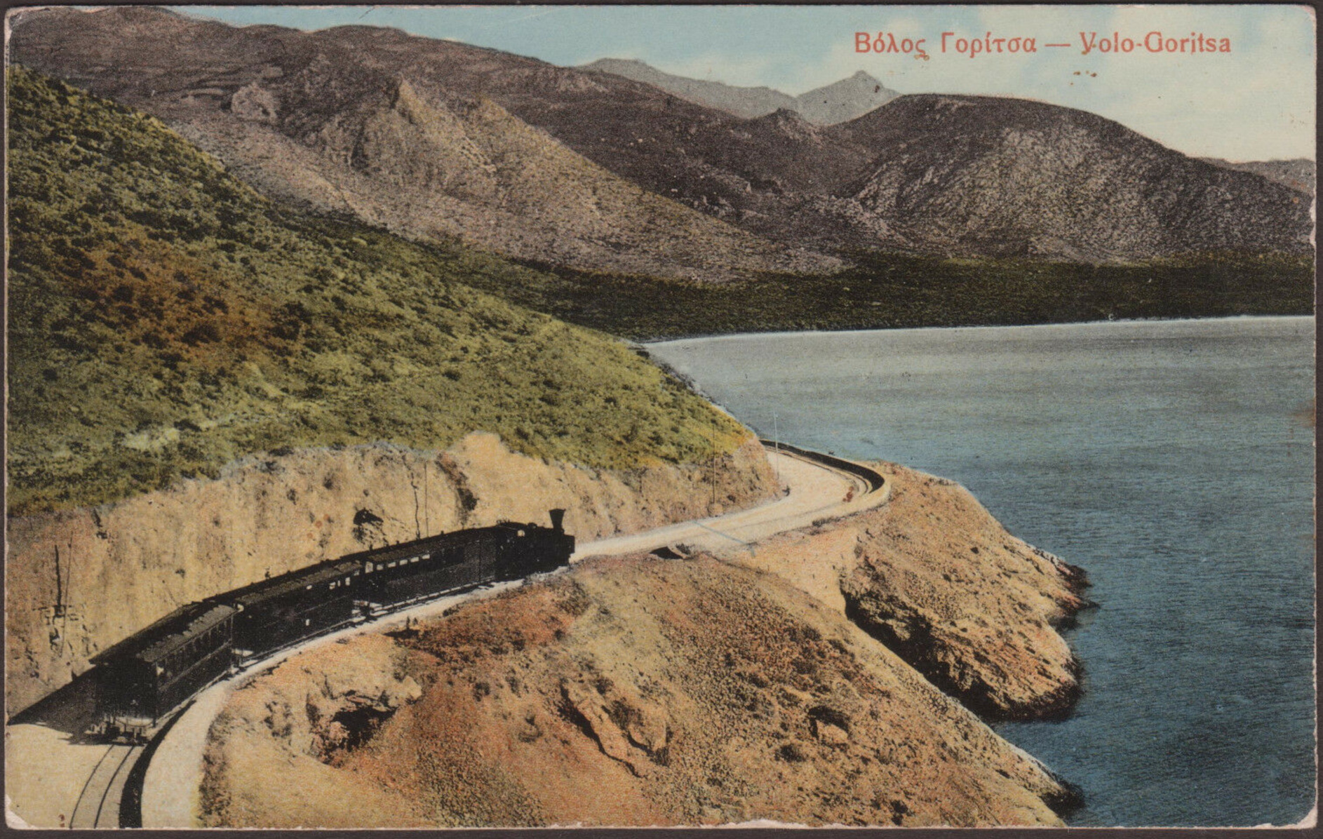 GREECE: Pelion railway, near Goritsa.